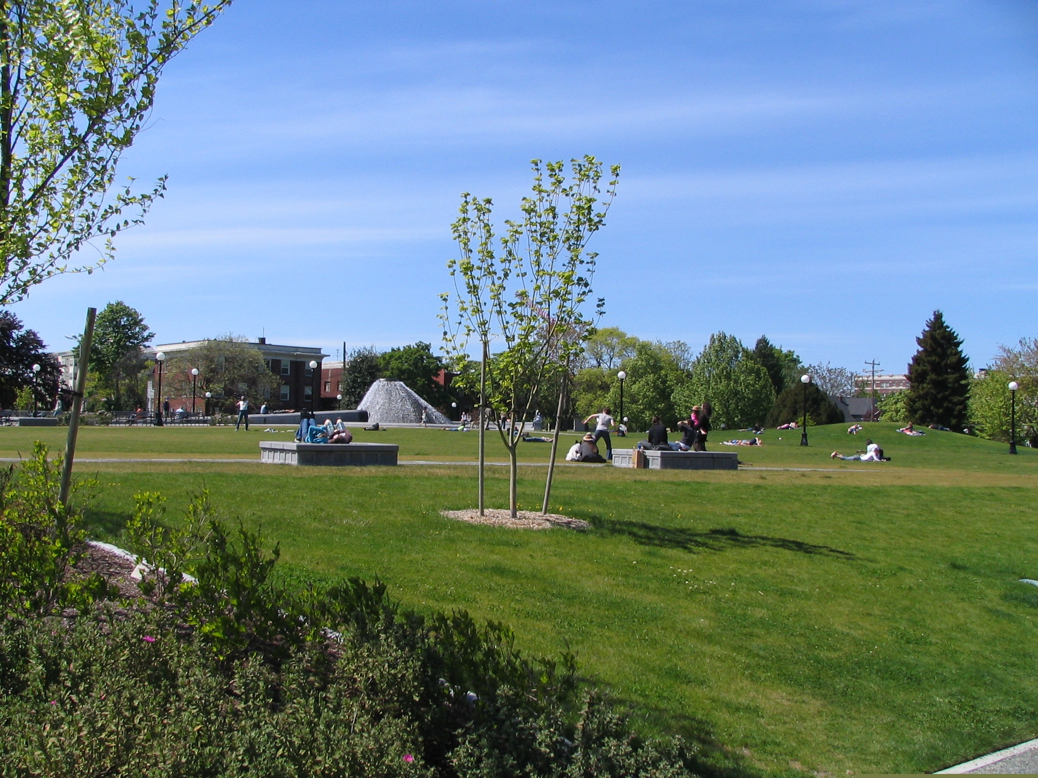 Cal Anderson Park, May 11, 2006. After duplicating the :consistently unable to view" problems described by Jmabel in Commons:Village pump/Archive/2007Jul#Problem_with_an_image, I copied with Firefox, pasted to , saved to disk, was able to view in both and Microsoft Paint, uploaded as Image:Cal Anderson Park.jpg, tested, and marked Image:CalAndersonPark.jpg as a duplicate. — Jeff G. (talk|contribs) 21:01, 23 August 2007 (UTC)